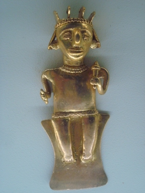 Gold pendant Quimbaya-type. Caribbean Coast of Costa Rica, 300-700 AC.